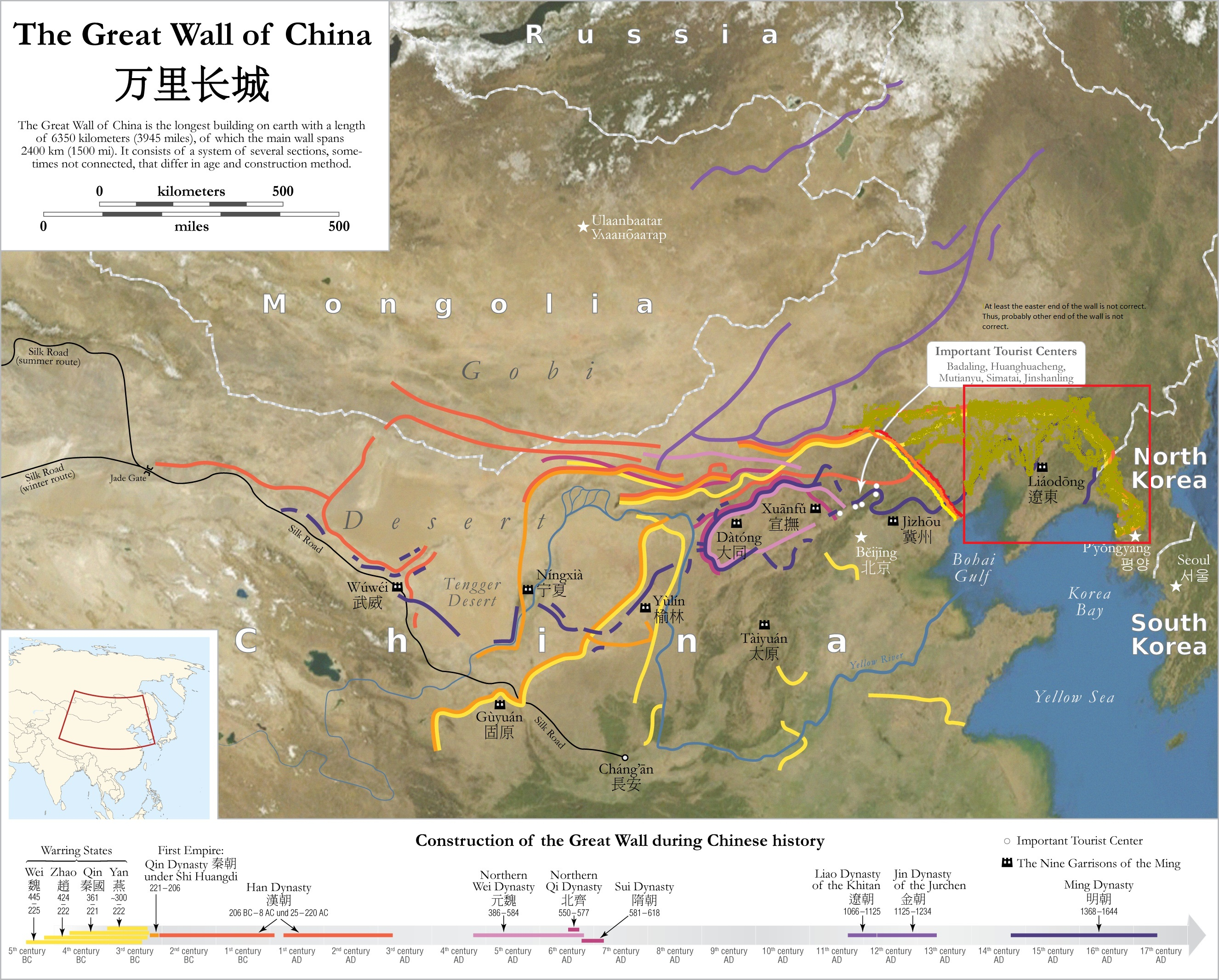 Map of the Great Wall of China *